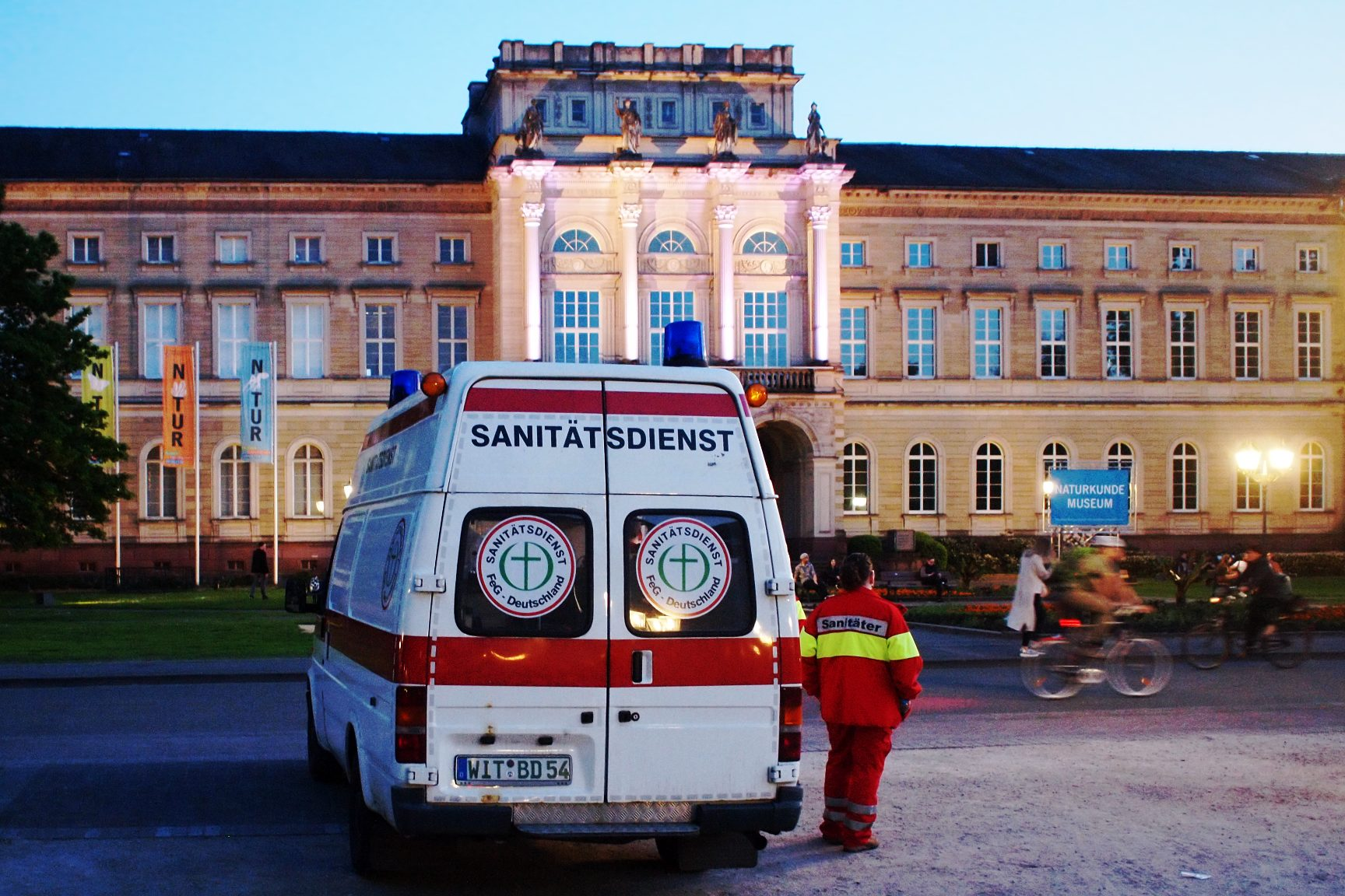 Emergency medical services in Germany, ambulance in stand-by at a youth convention